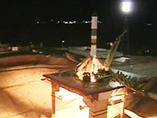 The ISS Progress 40 cargo craft launches from Kazakhstan.